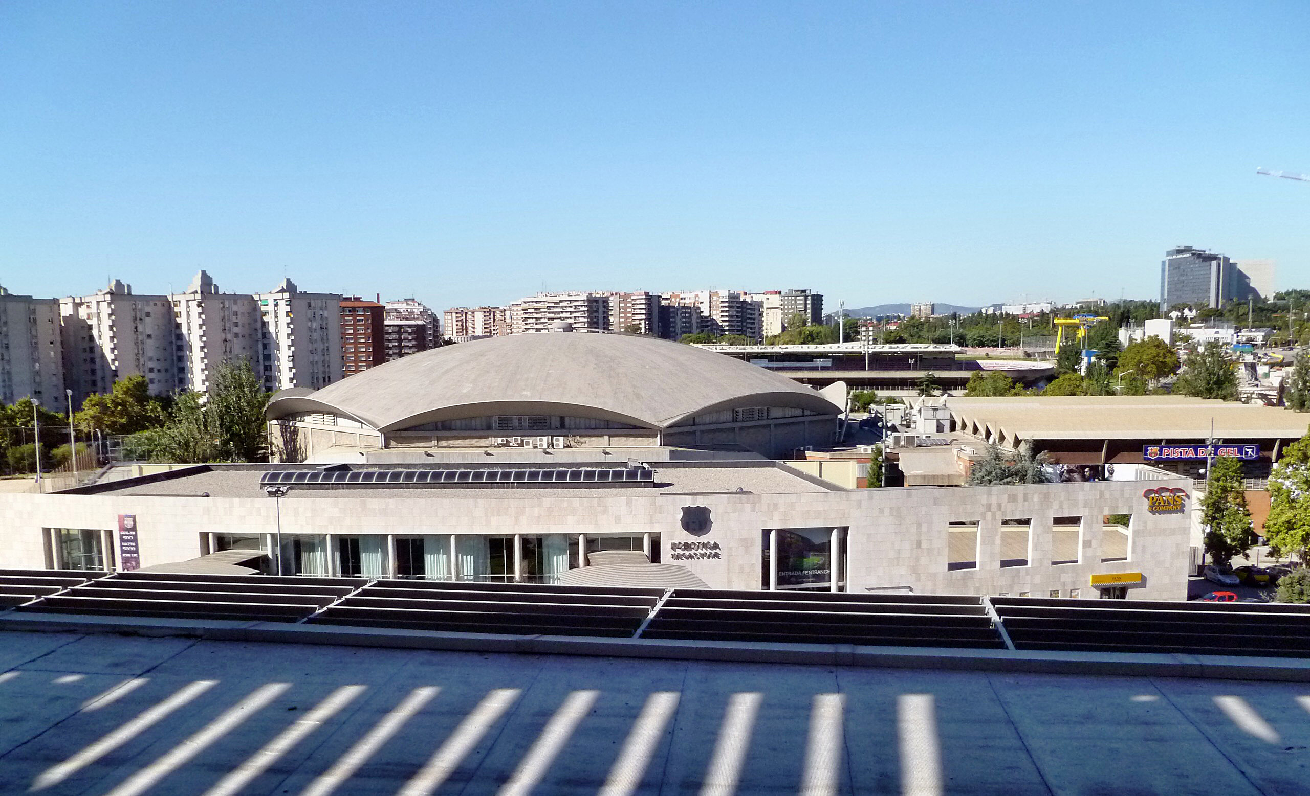 The sports arena Palau Blaugrana of FC Barcelona in Barcelona at Camp Nou, Barcelona, Catalonia, Spain